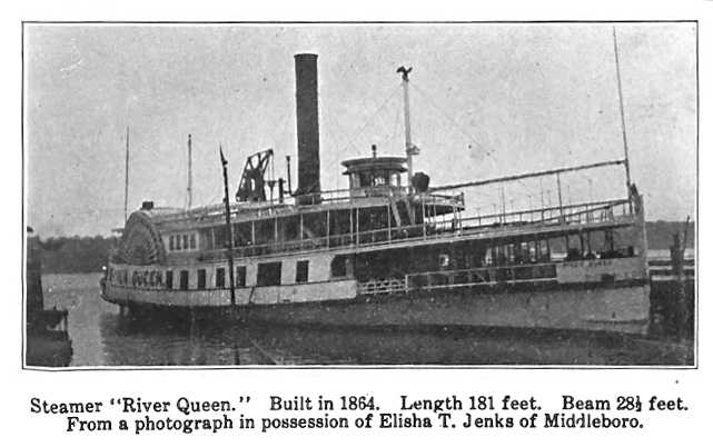 River Queen, steamboat built 1864, burned 1901.